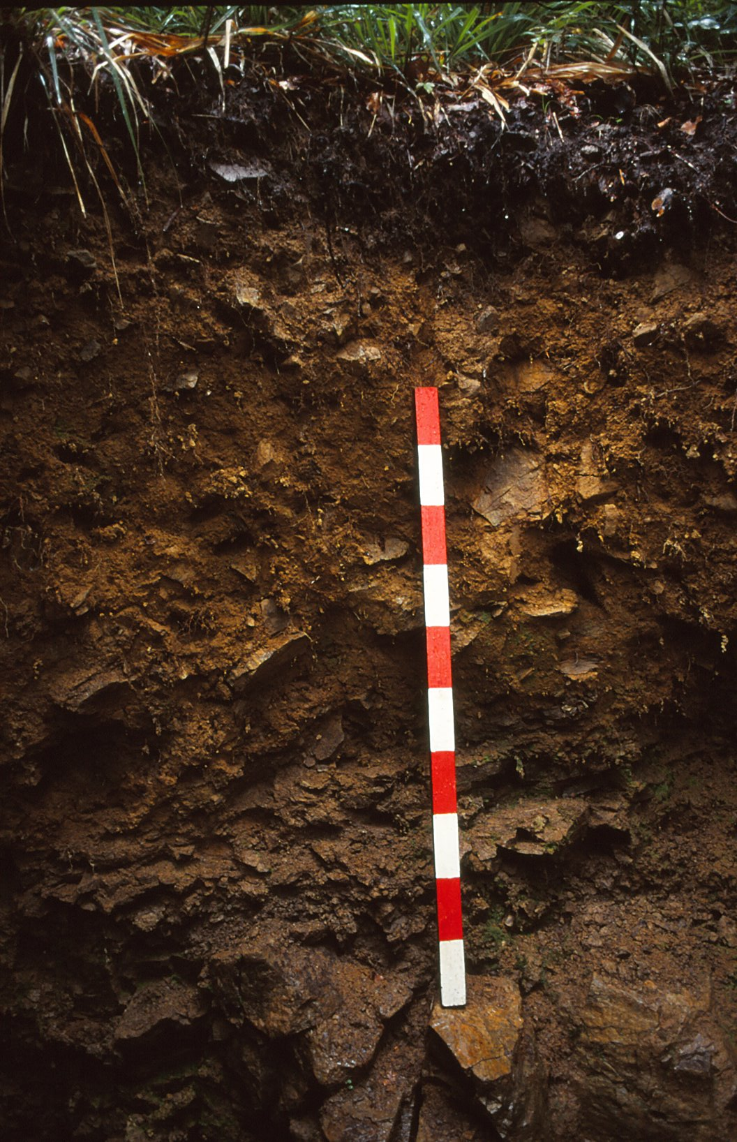 Cambisol near Kirchzarten, Southern Black Forest, Germany.